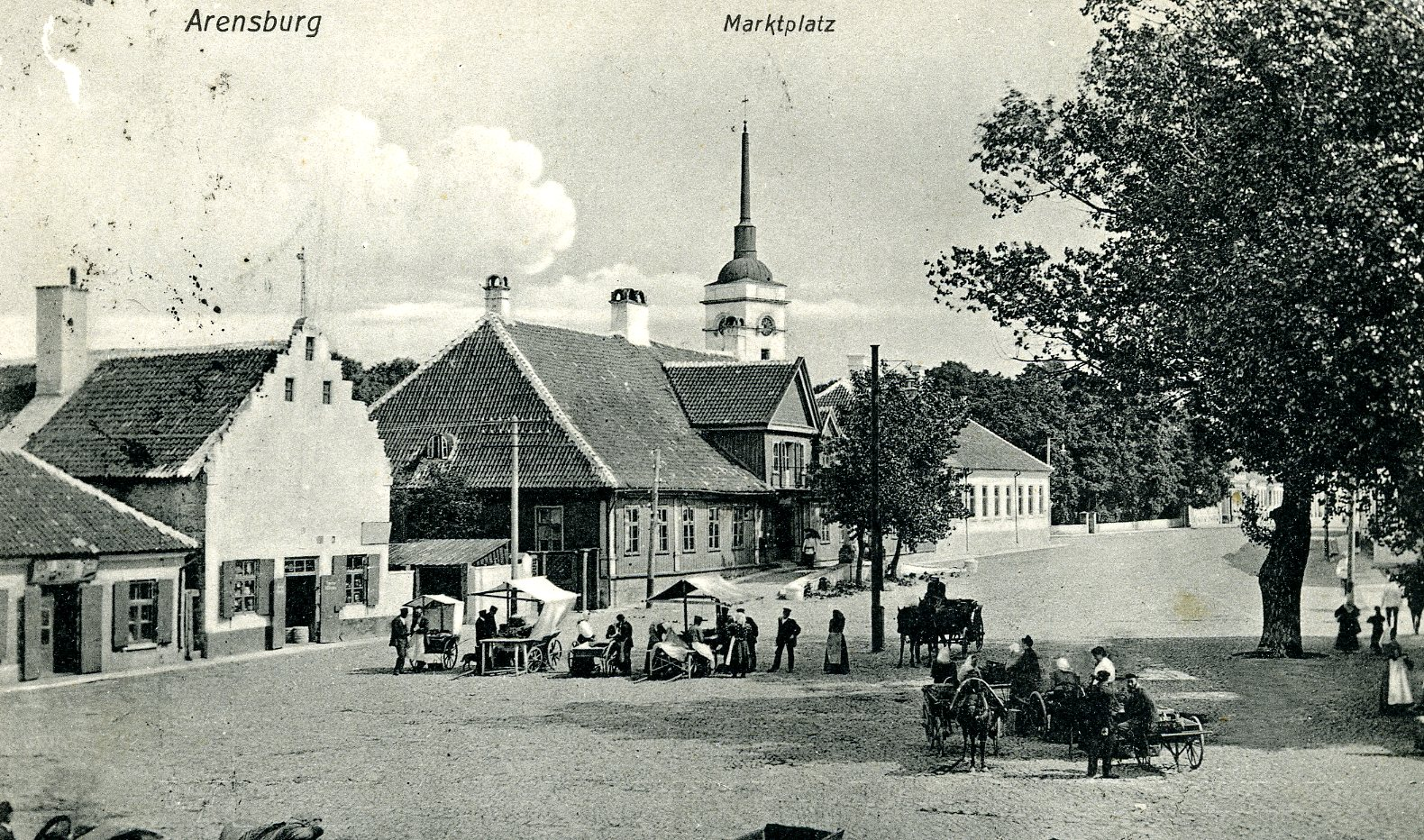 Old postcard of Kuressaare